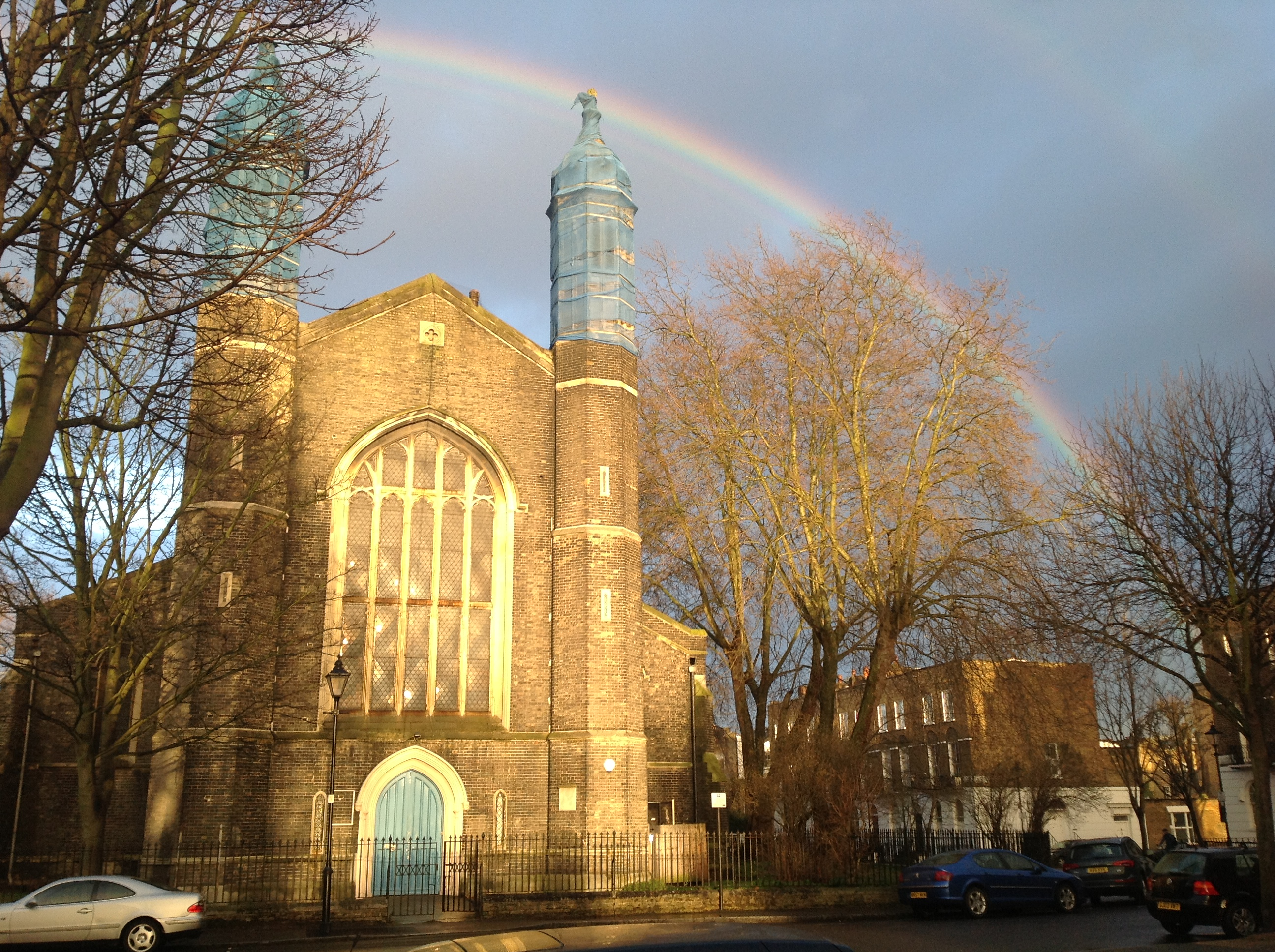 Celestial Church of Christ, North London Parish